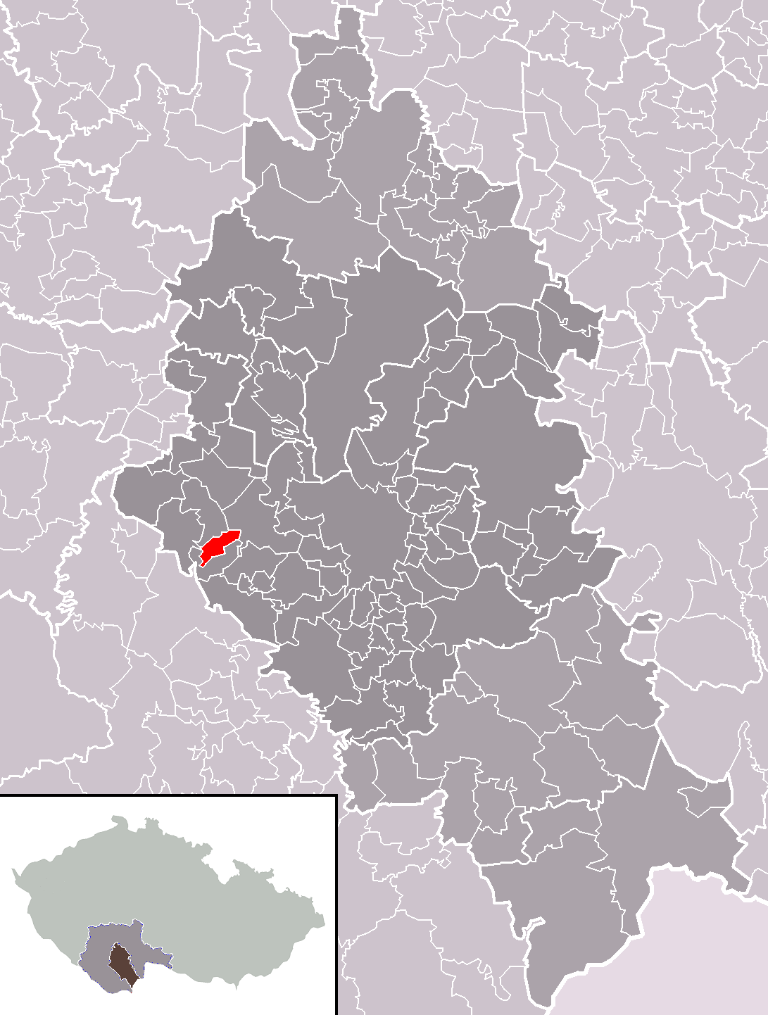 Location of Kvítkovice municipality within České Budějovice District and administrative area of České Budějovice as a Municipality with Extended Competence.